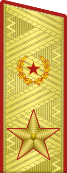 Rank insignia of the USSR Armed Forces/ Soviet Army in general, here Army general (OF-9) – shoulder strap dress uniform since 1974-1991.